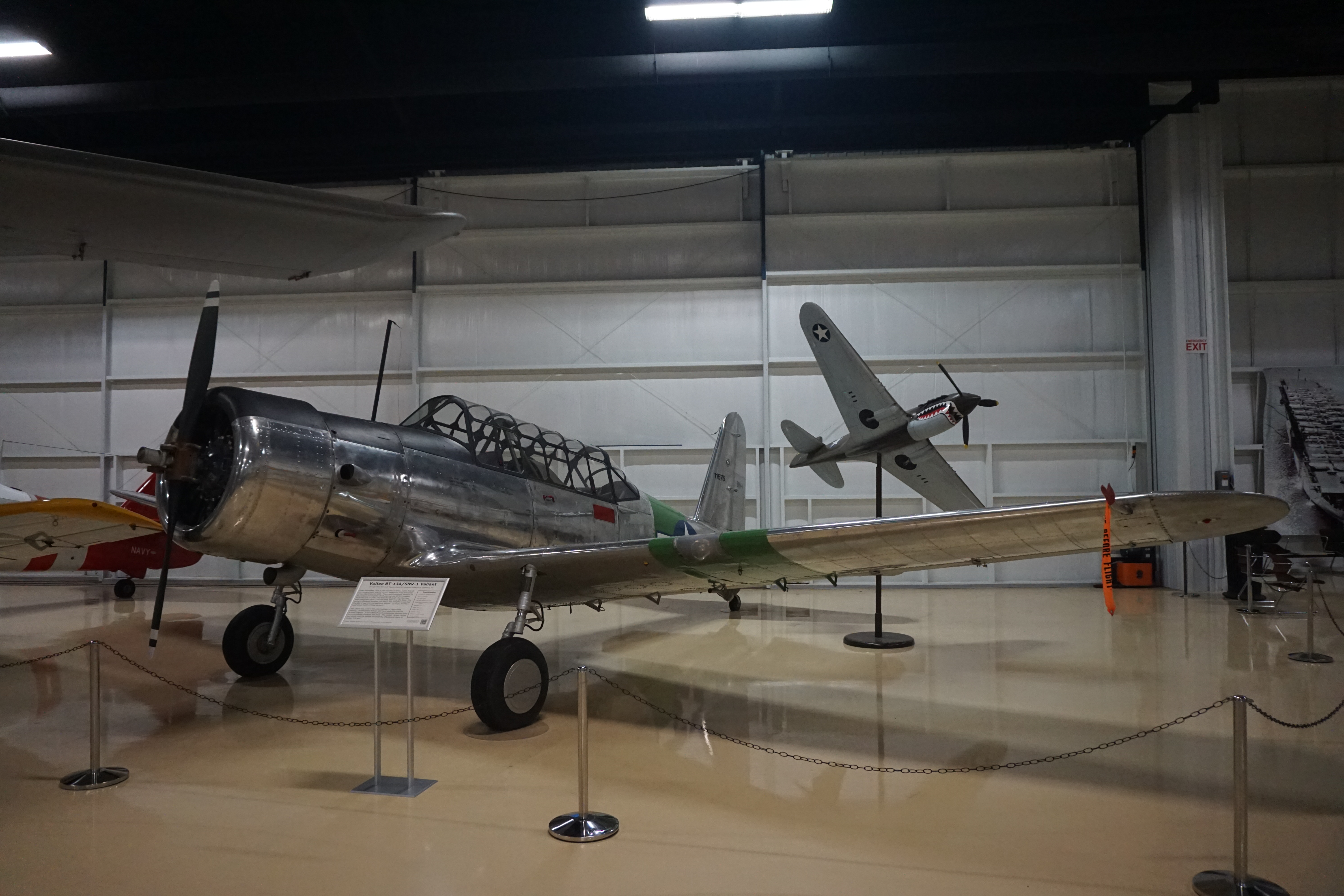 A Vultee BT-13A/SNV-1 Valiant on display at the Air Zoo at Kalamazoo/Battle Creek International Airport in Portage, Michigan (United States).